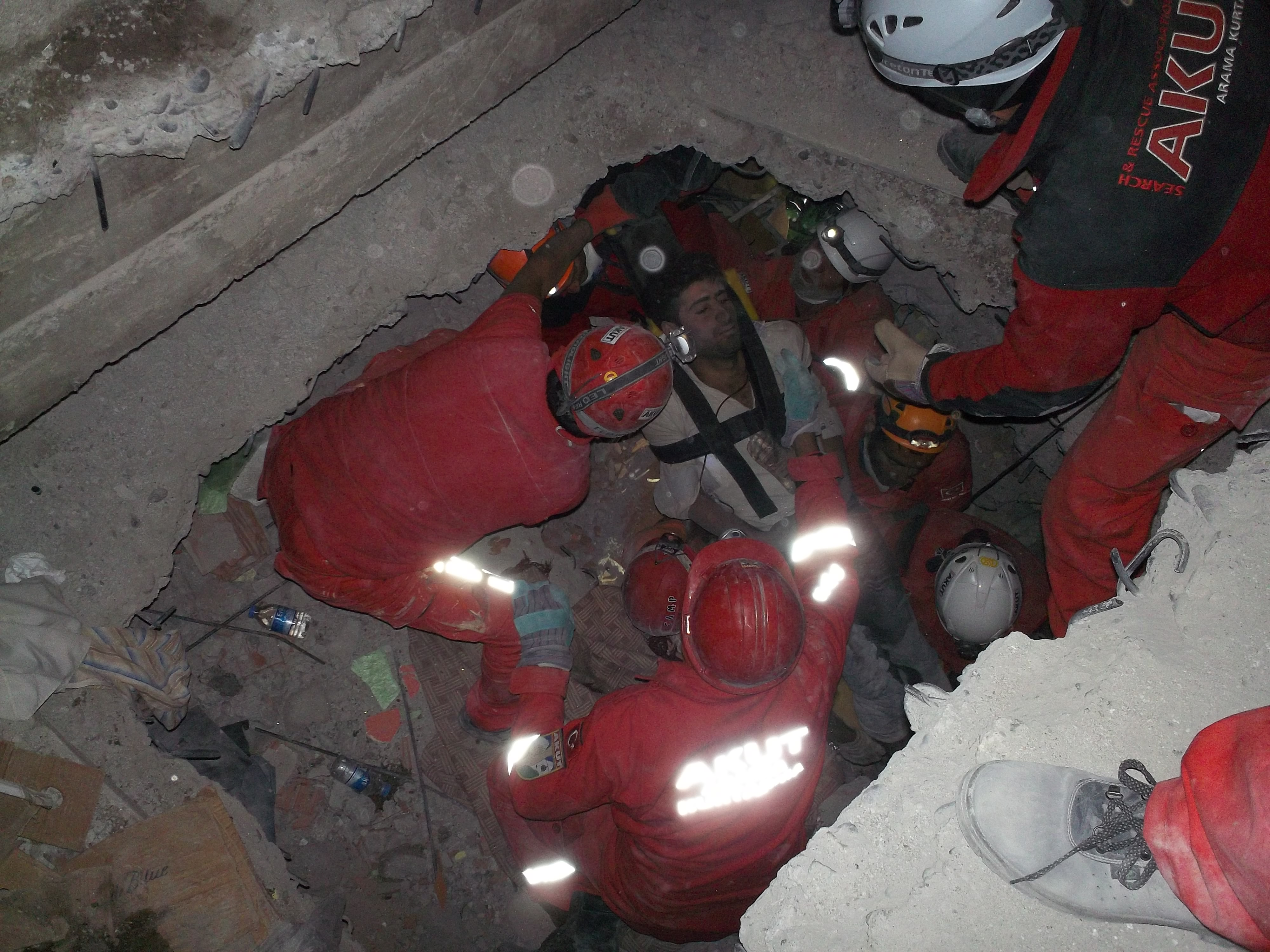 Search and rescue operations after Van earthquake, 2011